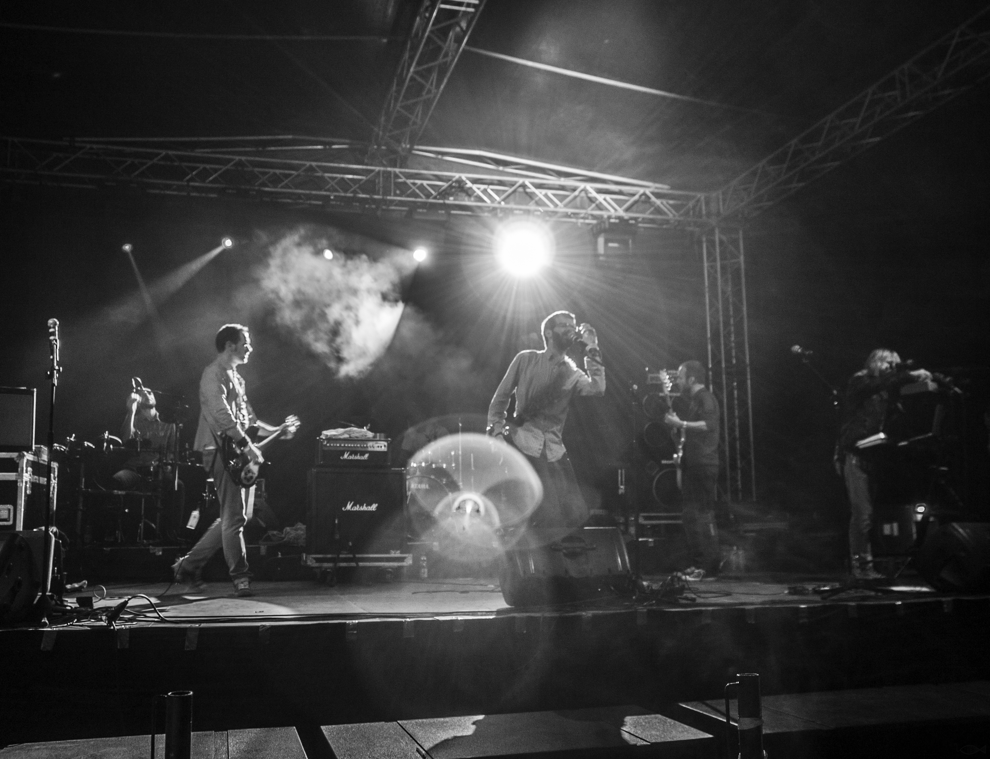 Robin and the Backstabbers on the stage of Victoria Film Festival, August 24, 2013